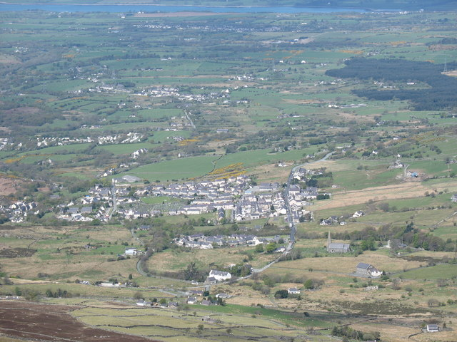 Deiniolen - A Former Slate Quarrying Village. This distant view shows the village of Deiniolen in the foreground. Until a generation ago most of the menfolk of the village worked in the Dinorwig Quarry. Two other former slate quarrying villages are shown in the photo, Penisarwaen in the middleground and Bethel in the background.Llandinorwig Church can be seen in the foreground, right.